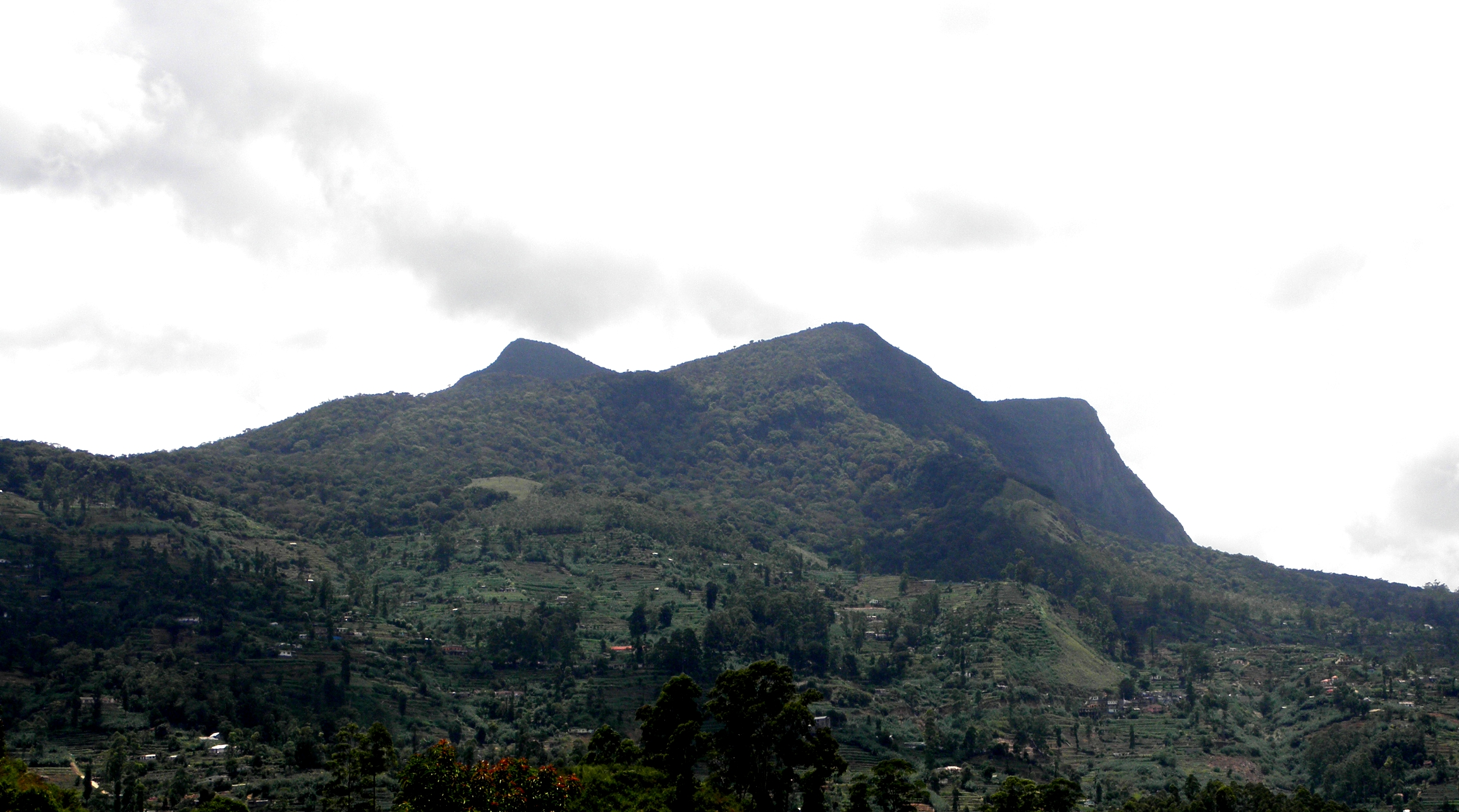 image of Hakgala Mountain